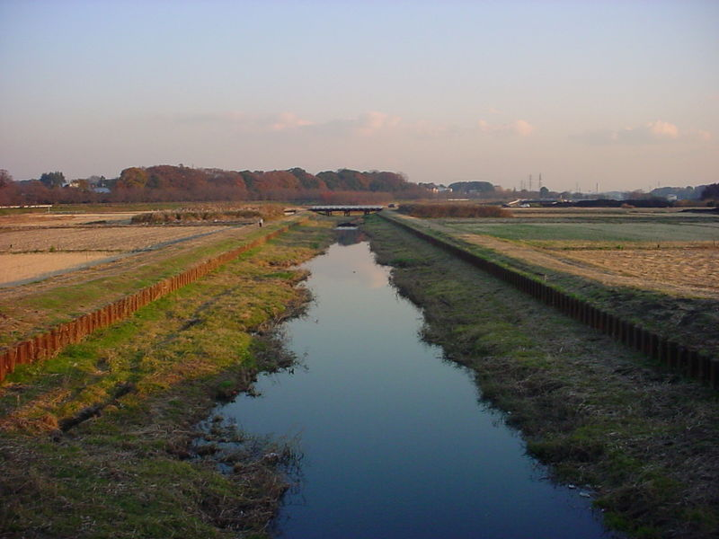 a scene of Minuma